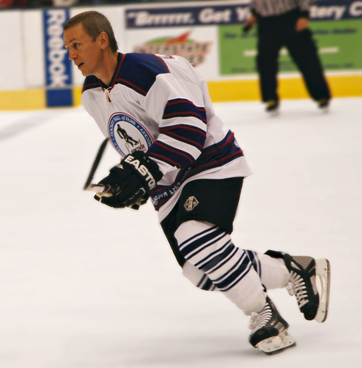 Igor Larionov played with the All-Star Legends 2008 in Toronto